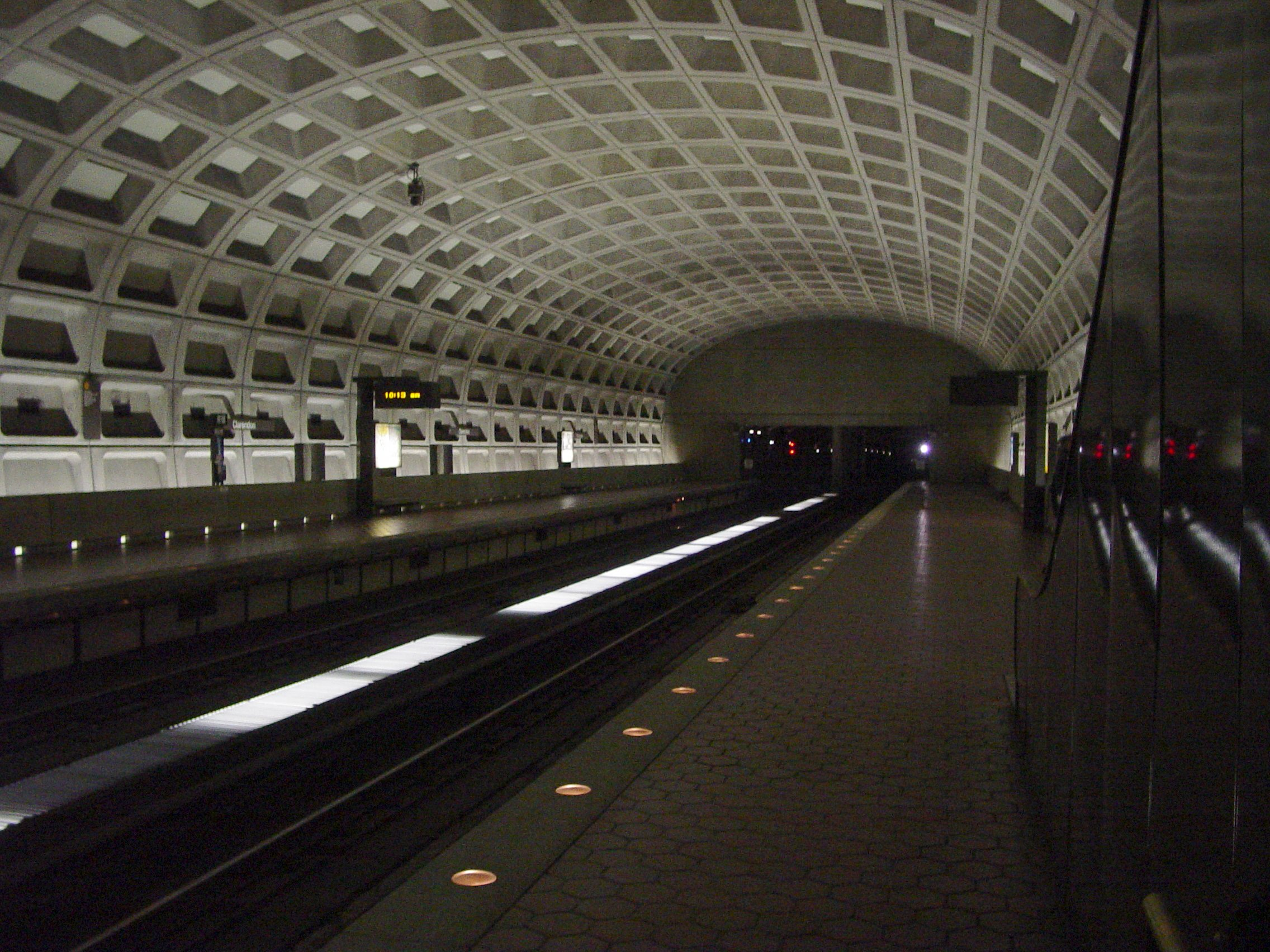 Clarendon station